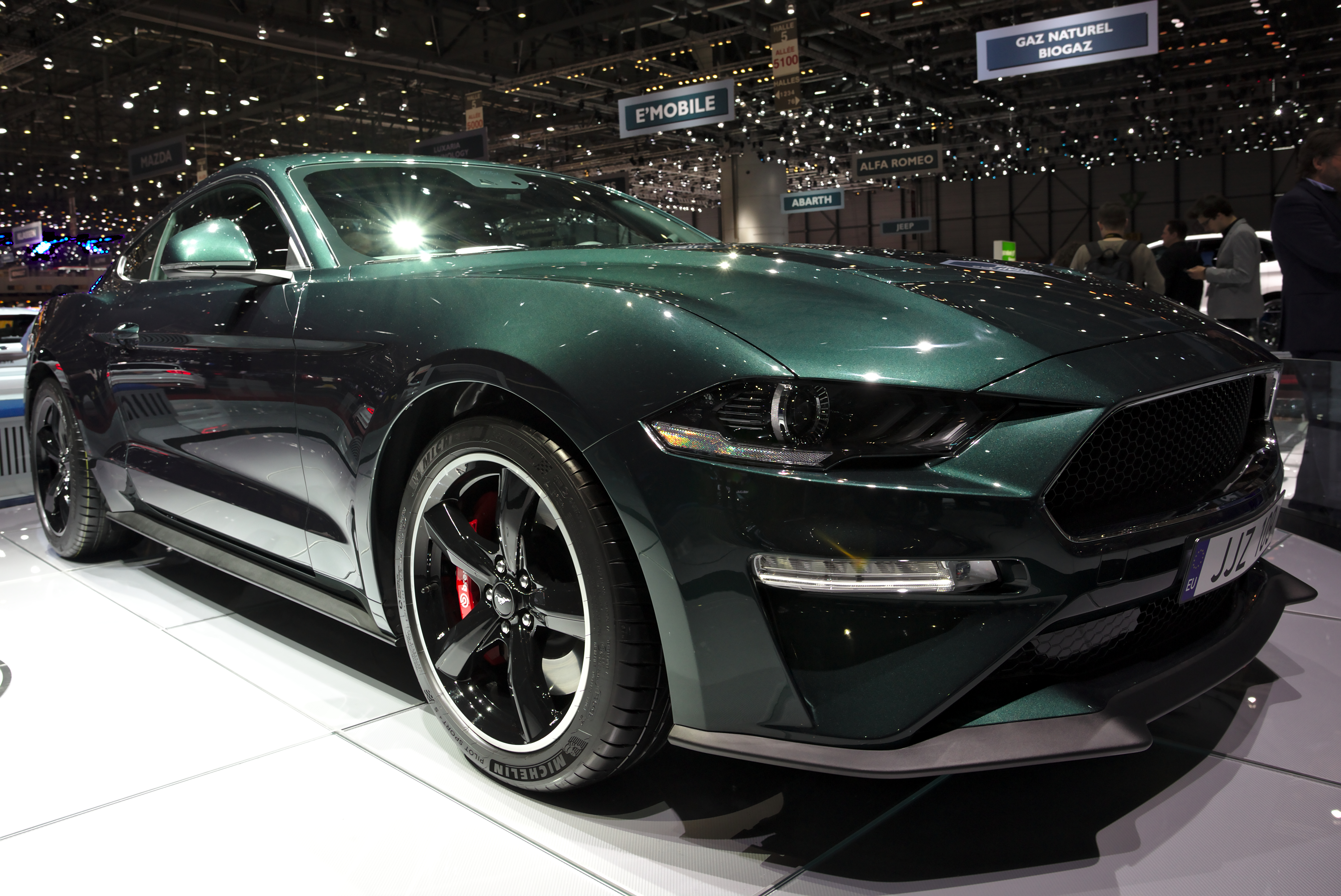 Ford Mustang Bullit '18 at Geneva Motorshow 2018